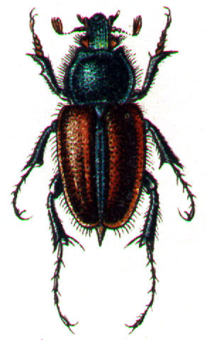 Anthypna abdominalis Jacobson, G. G. 1905-1915. The Beetles of Russia, West Europe and Adjacent Countries. A. F. Devrien, St. Petersburg.